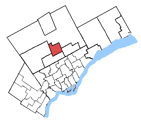 Map of the Richmond Hill electoral district. Based on Earl Andrew's maps, created by SimonP.